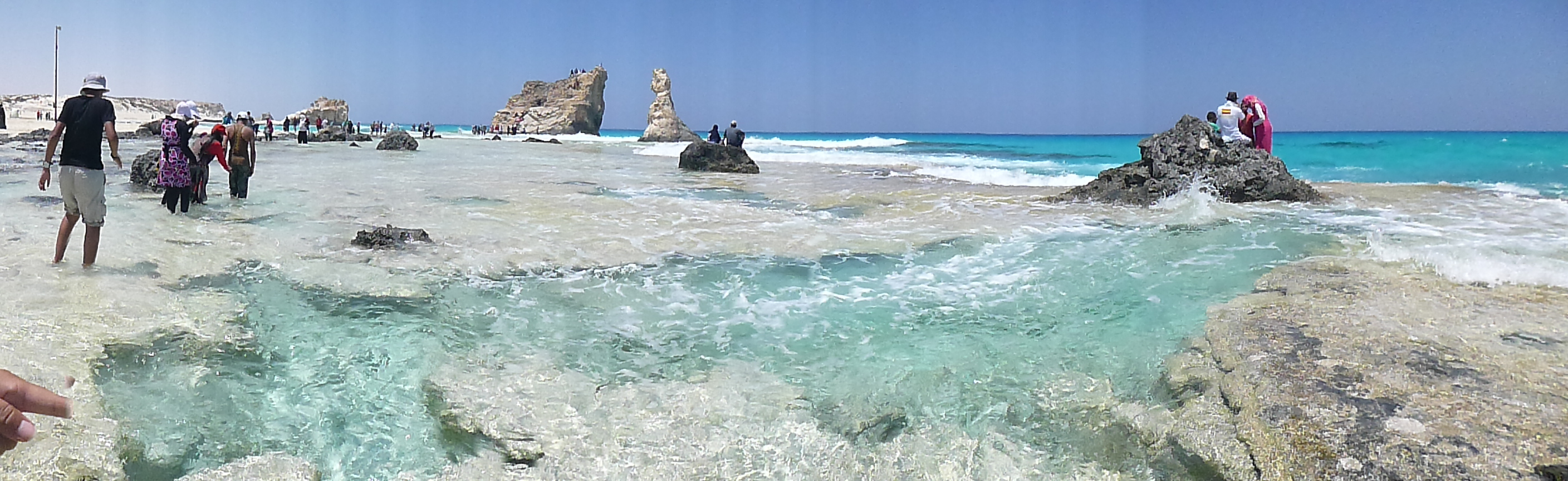 Cleopatra’s Beach